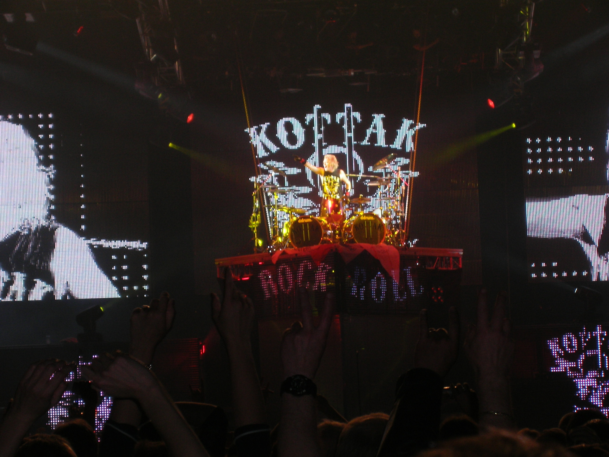 Scorpions band 2010-10-17 Amnéville